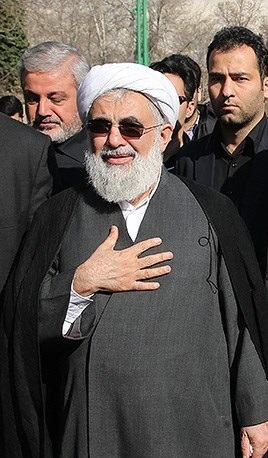 Ali Fallahian, former minister of intelligence of Iran